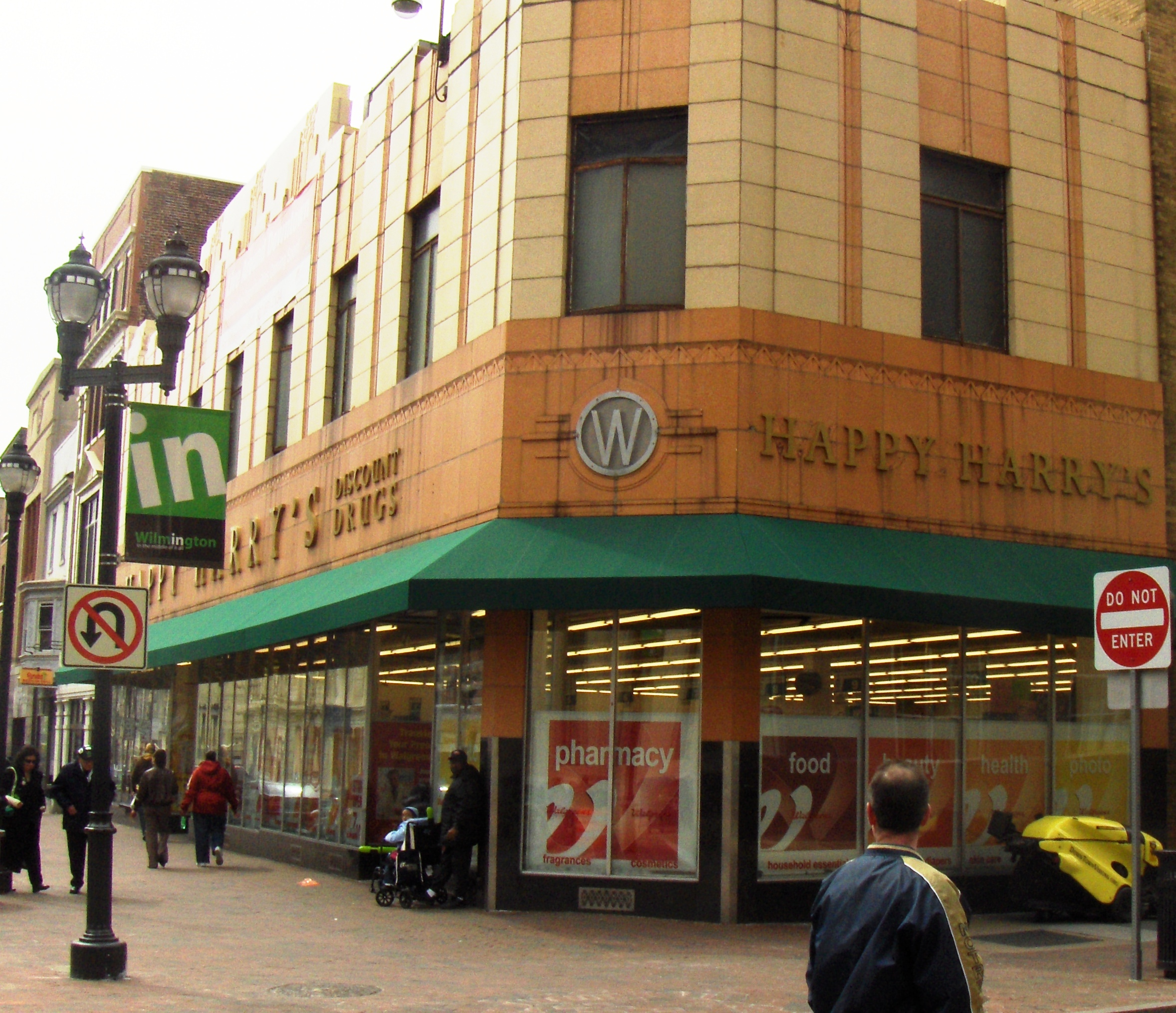 F. W. Woolworth Building at 9t & Market Streets in downtown Wilmington, Delaware, now a Happy Harry's Drug Store owned by Walgreens. Art Deco structure now listed on the National Registry of Historic Places.